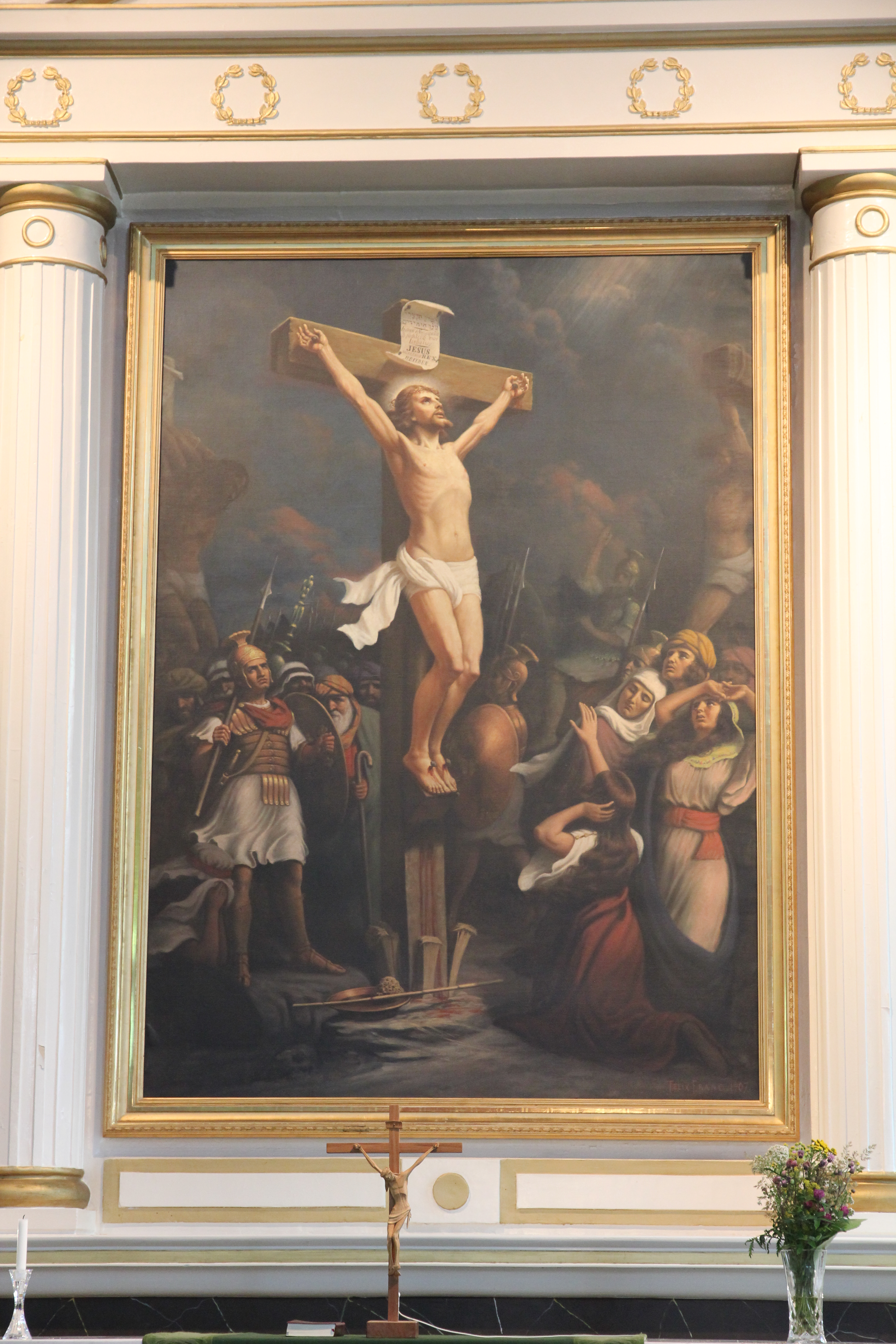 Nokia church altar painting by Felix Frang (1862-1932), crusifixion of Christ, 1907.